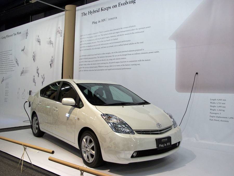 Toyota Prius Plug-in Hybrid (test vehicle) exhibited in London, UK, January 2010